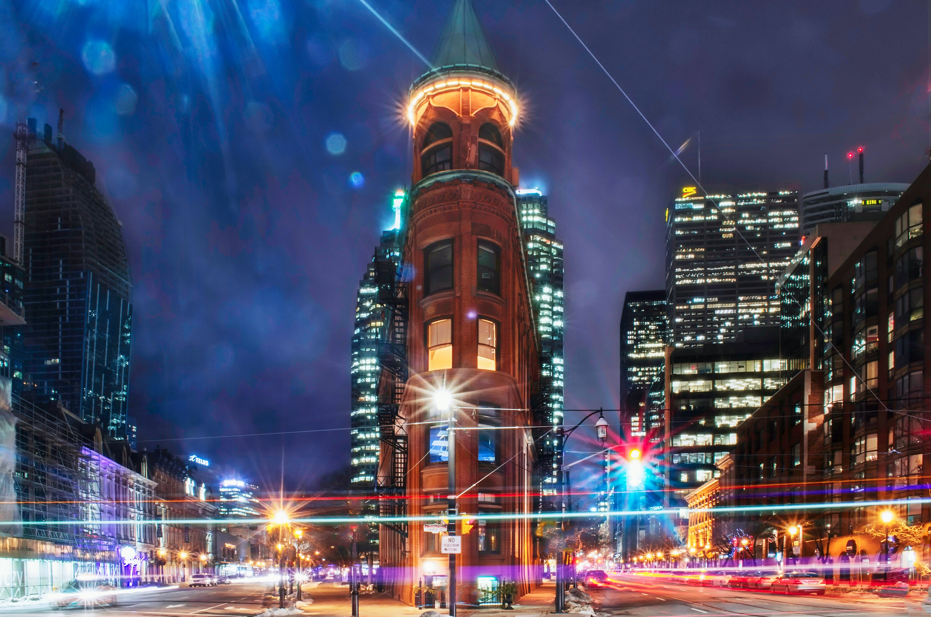 Gooderham Building at Night.